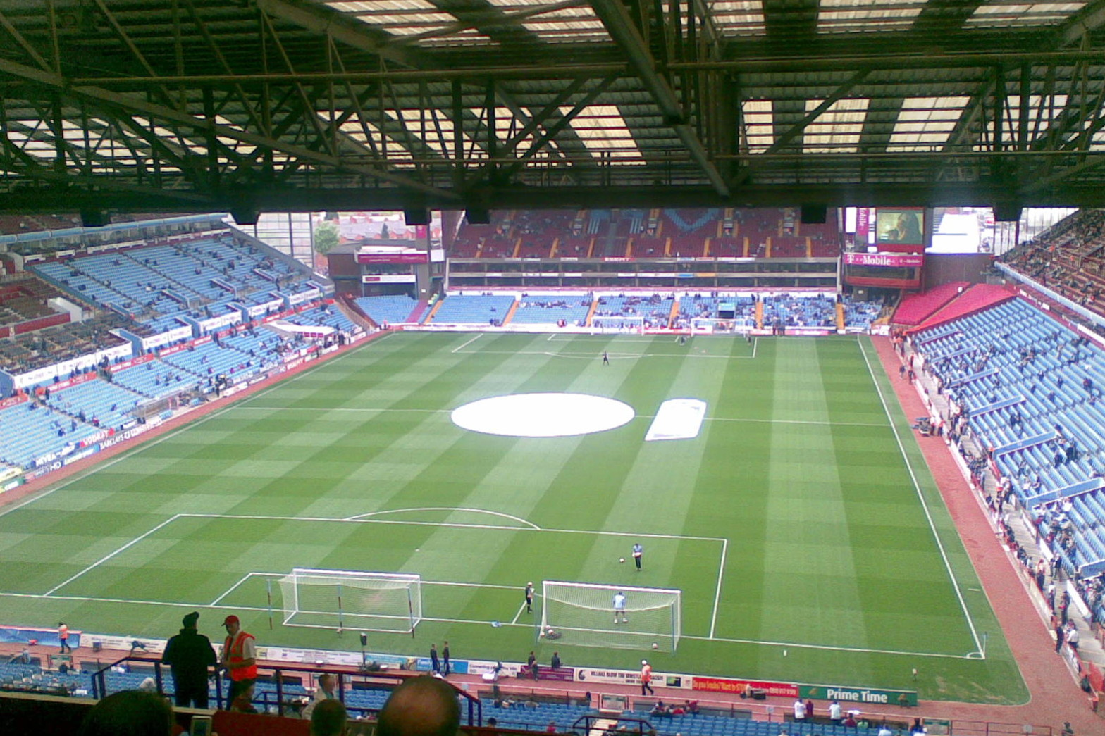 Picture from the top of the Holte end showing Villa Park.